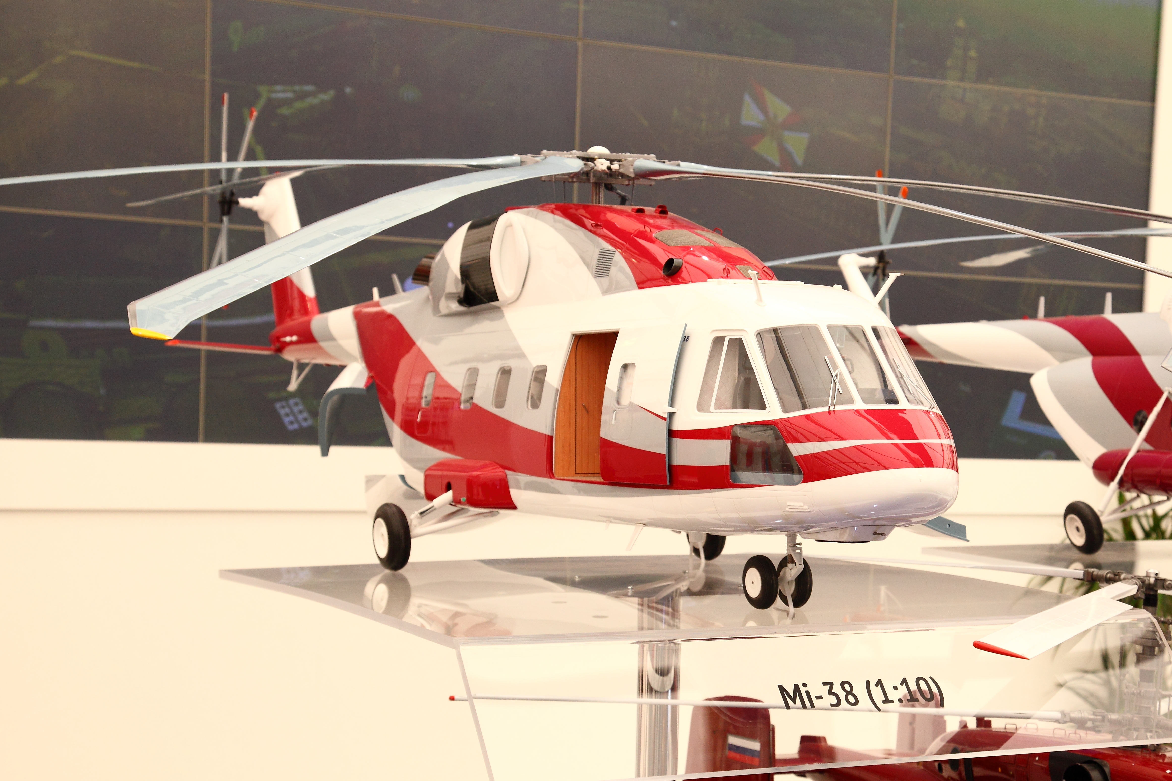 ILA Berlin Air Show 2012